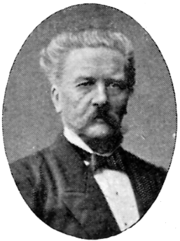 Image scanned from the book "Svenskt Porträttgalleri XX - Arkitekter, Bildhuggare, Målare m.fl. " ("Swedish Portrait Gallery XX - Architects, Sculptors, Painters, ") published 1901